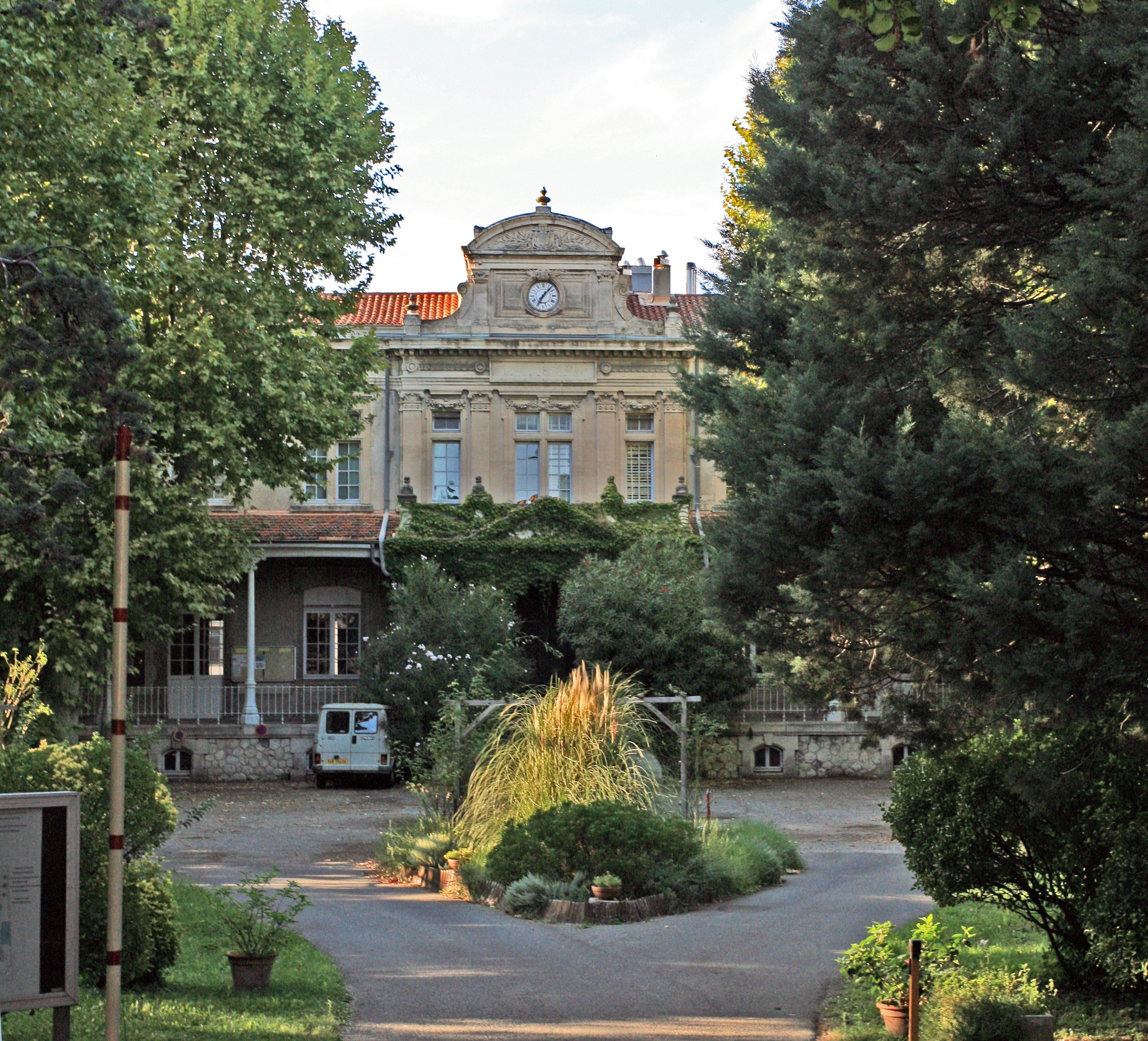 Ancient "École Normale", Avignon,(Vaucluse, France)